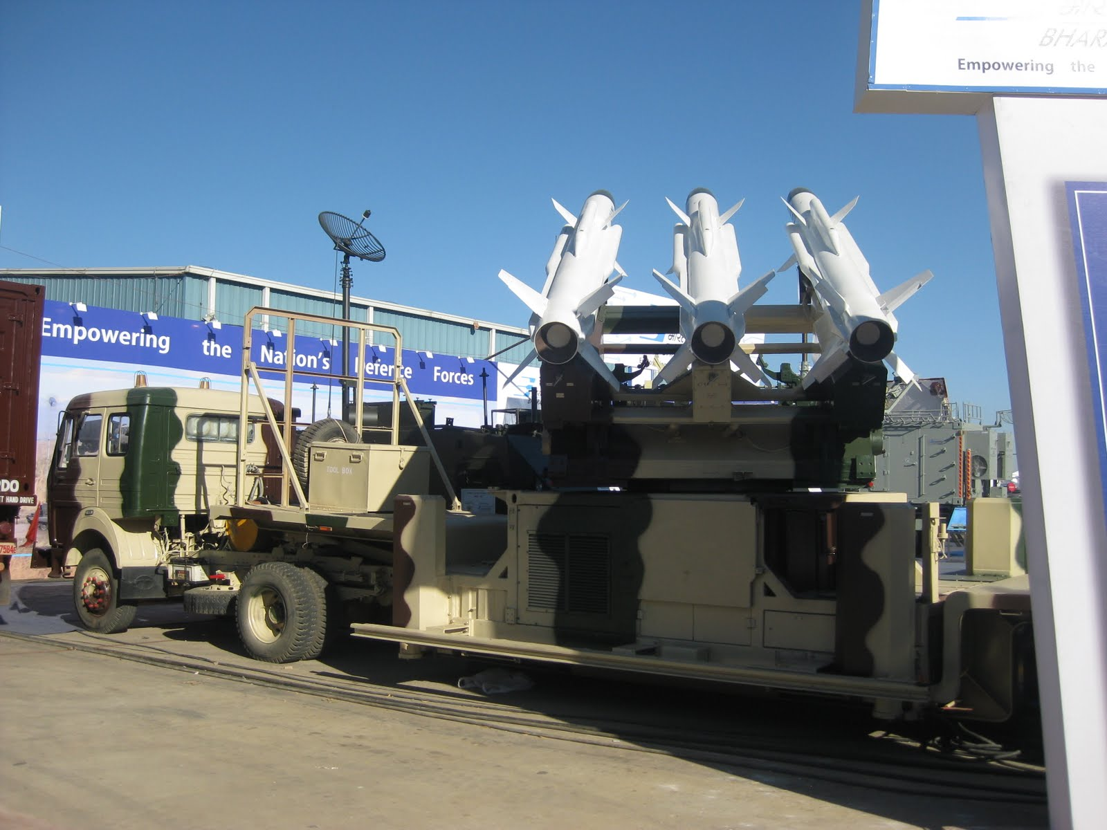 Akash missile at Aero India 2011